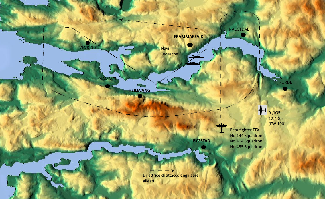 FordeFjord attack 9th february 1945